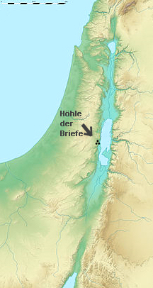 Blank location map of Israel (no boundaries).